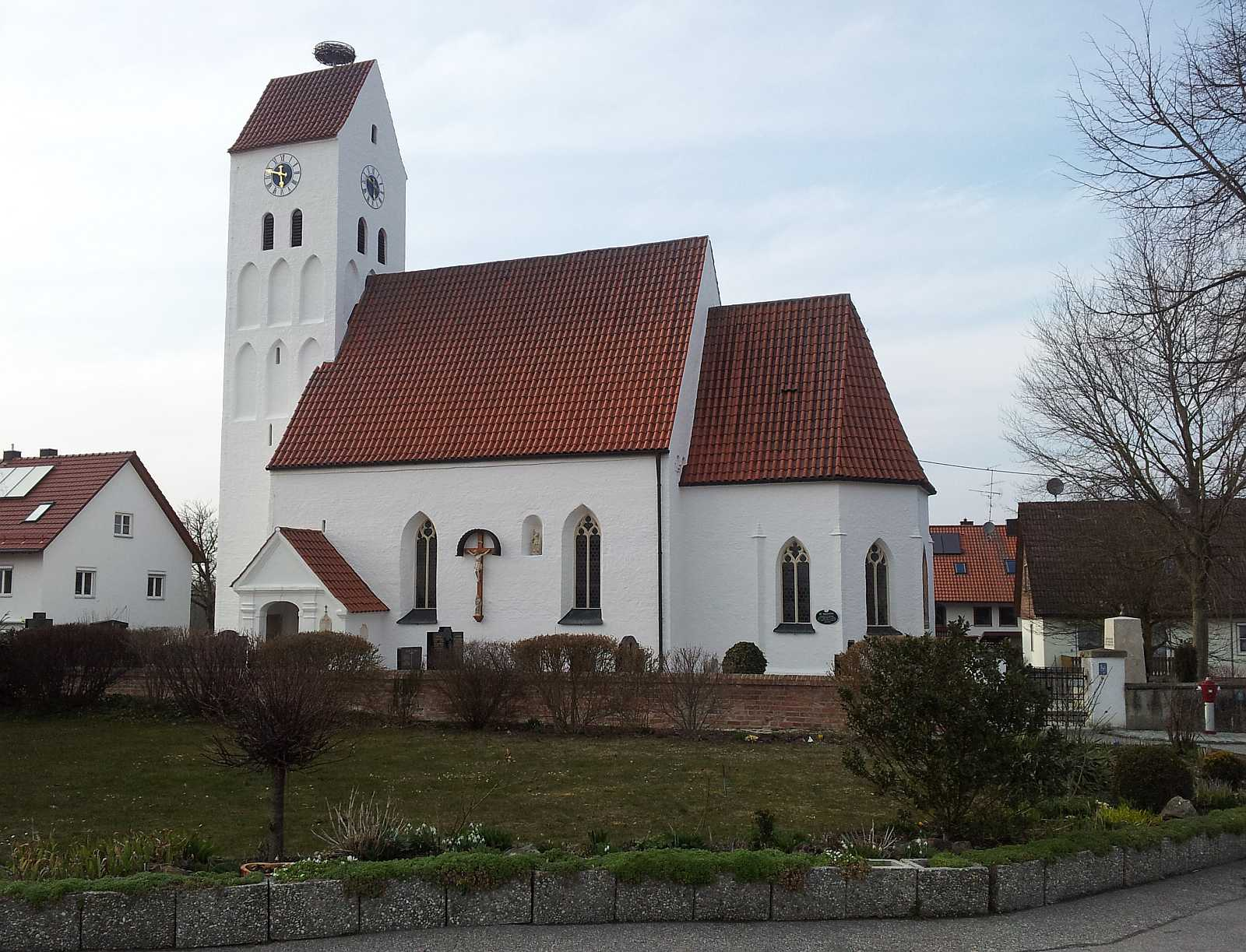 Church in Thonstetten (Moosburg a.d.Isar)